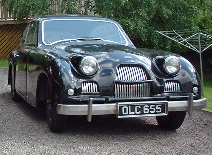 Allardcars' 1953 Allard P2 Monte Carlo. Chassis no P2 4501 has engine no 7287263, black exterior, red interior, original UK registration OLC 655. It left the Allard factory on 23 December, 1953. Crop of Allard PB and P2 MC.jpg by Allardcars.